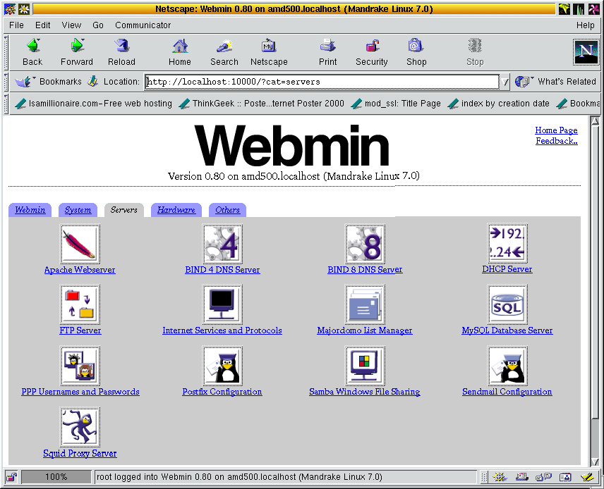 WebMin 0.80, Servers tab. Running on Mandrake Linux 7.0 with Netscape 4.7 showing the web interface.